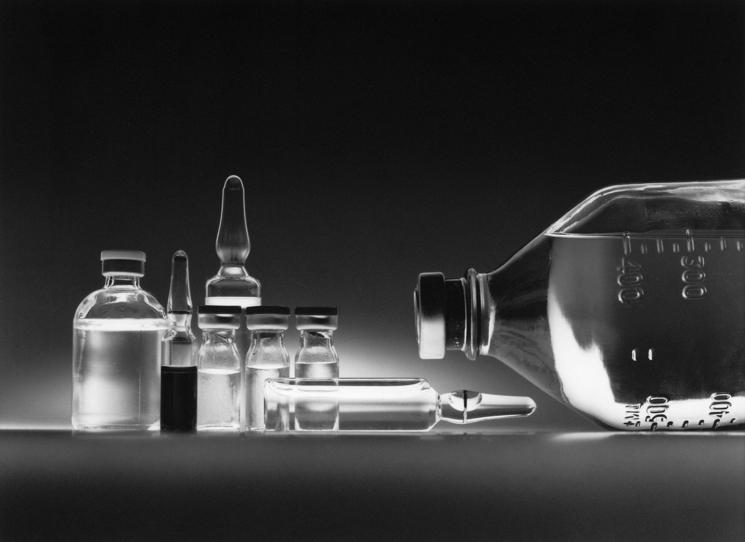 Title Chemotherapy Vials Description Variety of chemotherapy drugs in vials and an IV bottle. Topics/Categories Treatment, Chemotherapy Type B&W, Photo Source National Cancer Institute